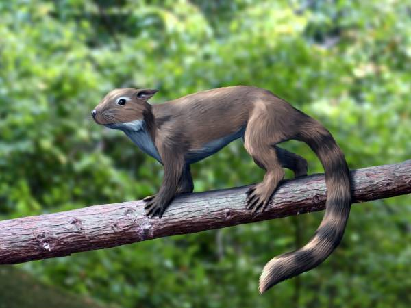 Life reconstruction of Shenshou lui